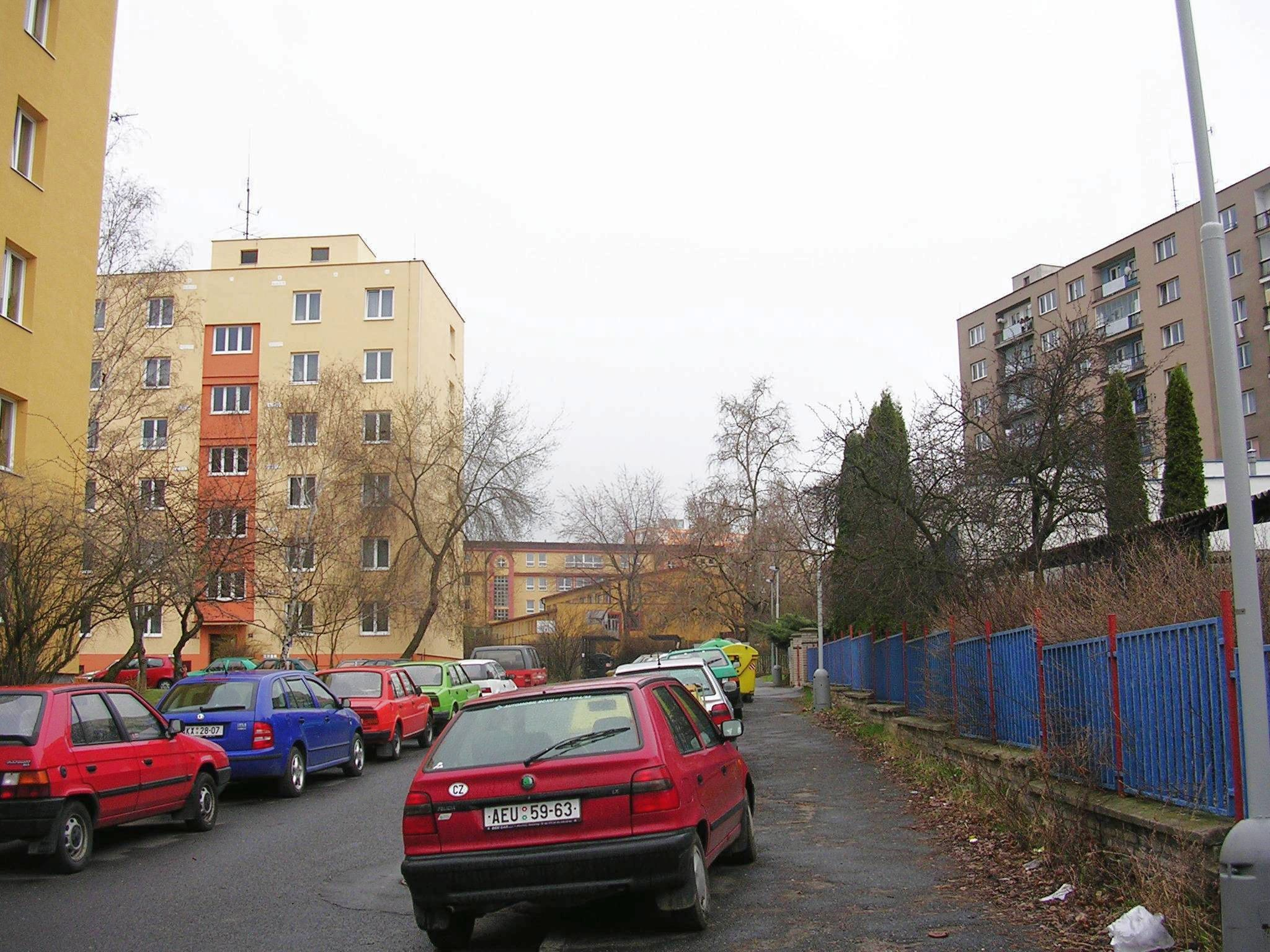 Záběhlice-Spořilov, Prague, the Czech Republic.